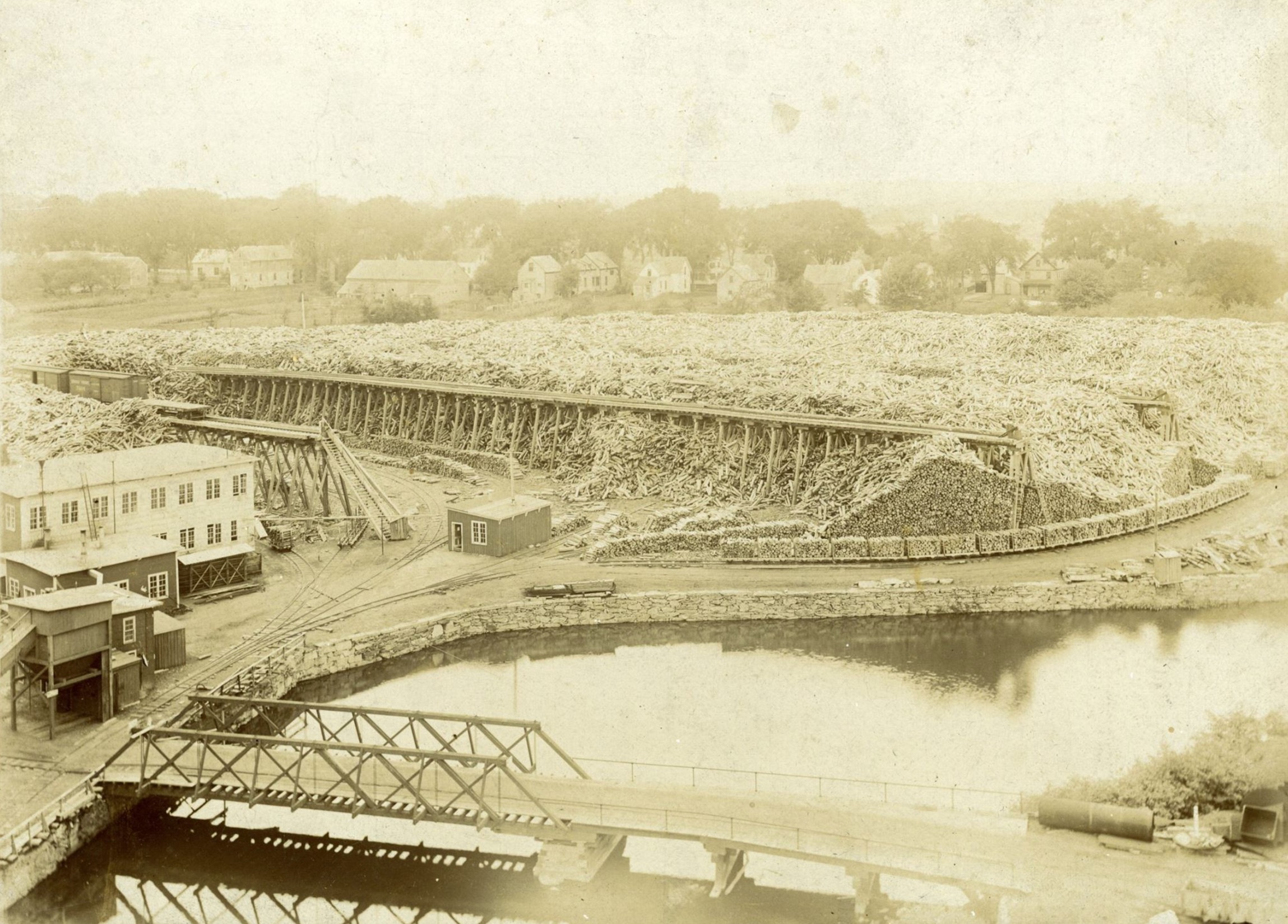 Forest Paper Company, looking north to Elm Street